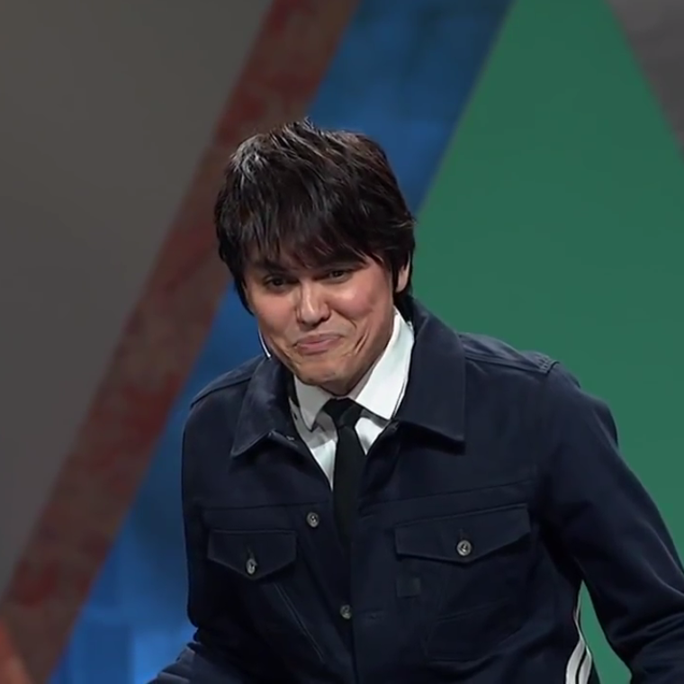 This picture was taken at Grace Revolution Conference.